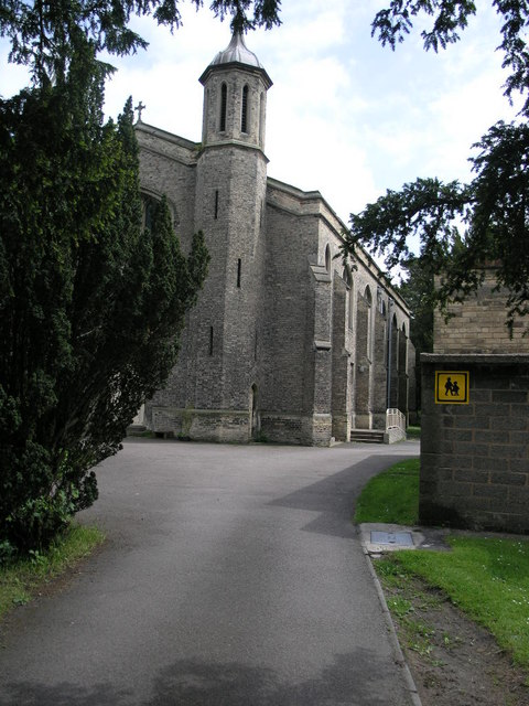 Part of St Saviour's parish church, Retford, Nottinghamshire, seen from the west. One of its pair of octagonal west turrets is visible.